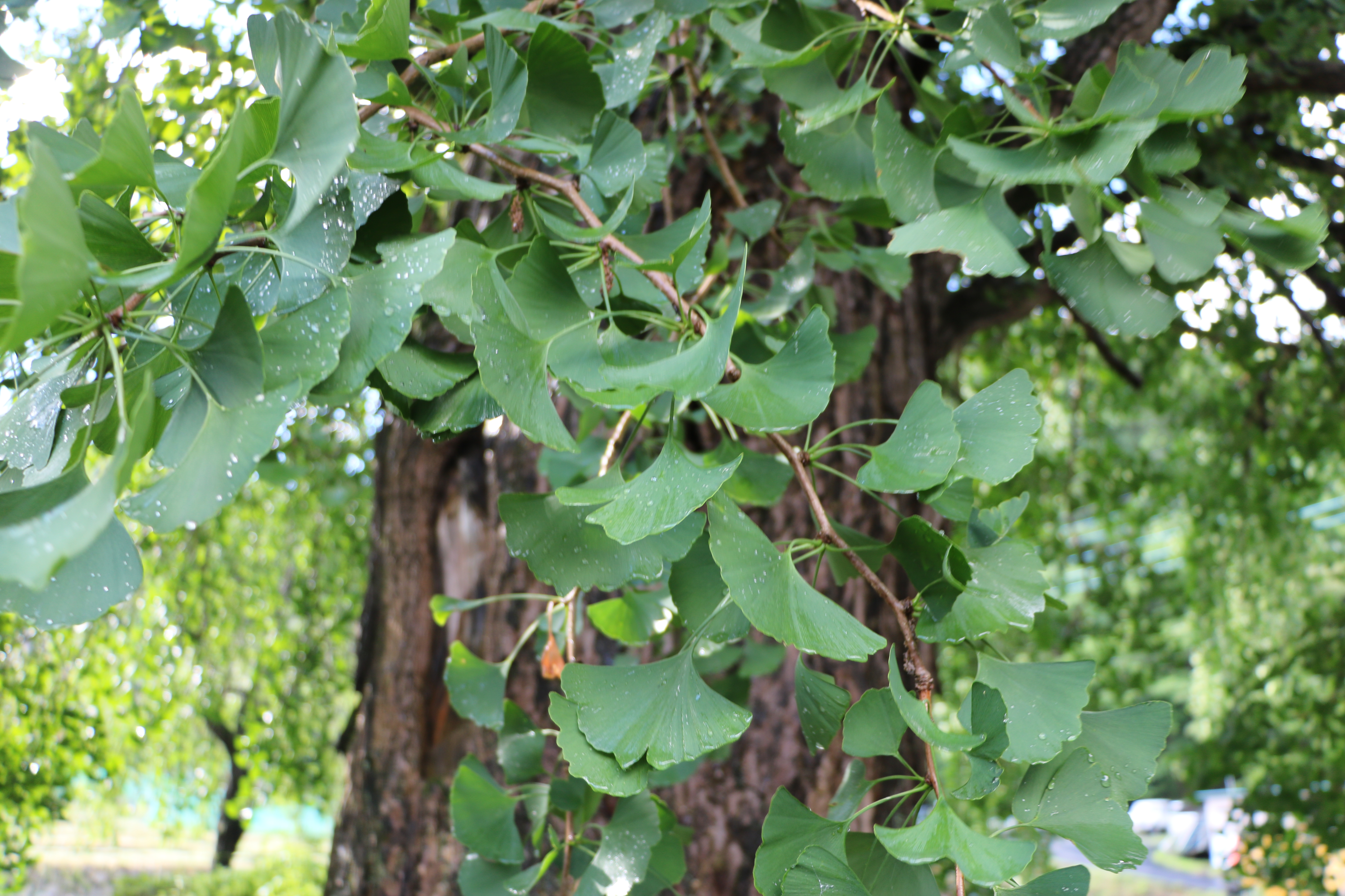 Yagisawa no Ohatsuki Icho. Ginkgo biloba natural monuments in Japan.